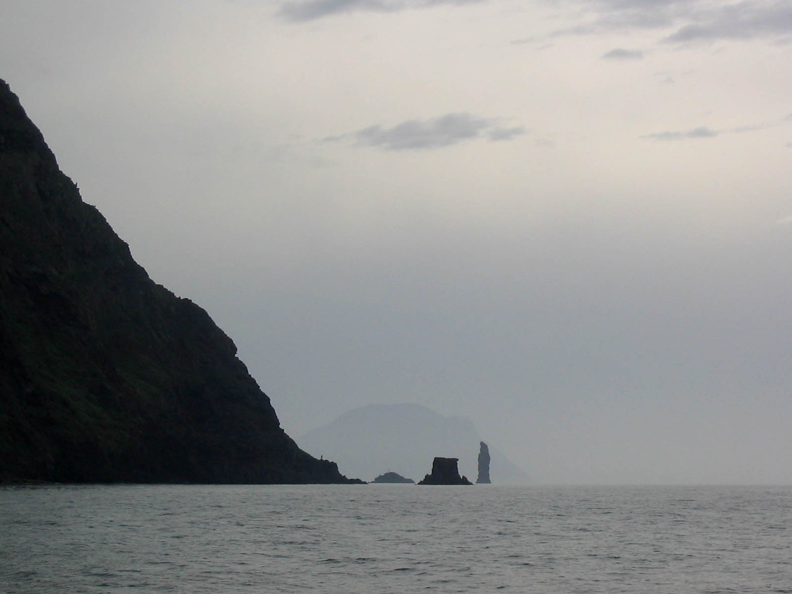 Filicudi, 'Scolgio della Fortuna' and 'Faraglione La Canna' rocks, Alicudi (Aeolian islands, Italy, North of Sicily).